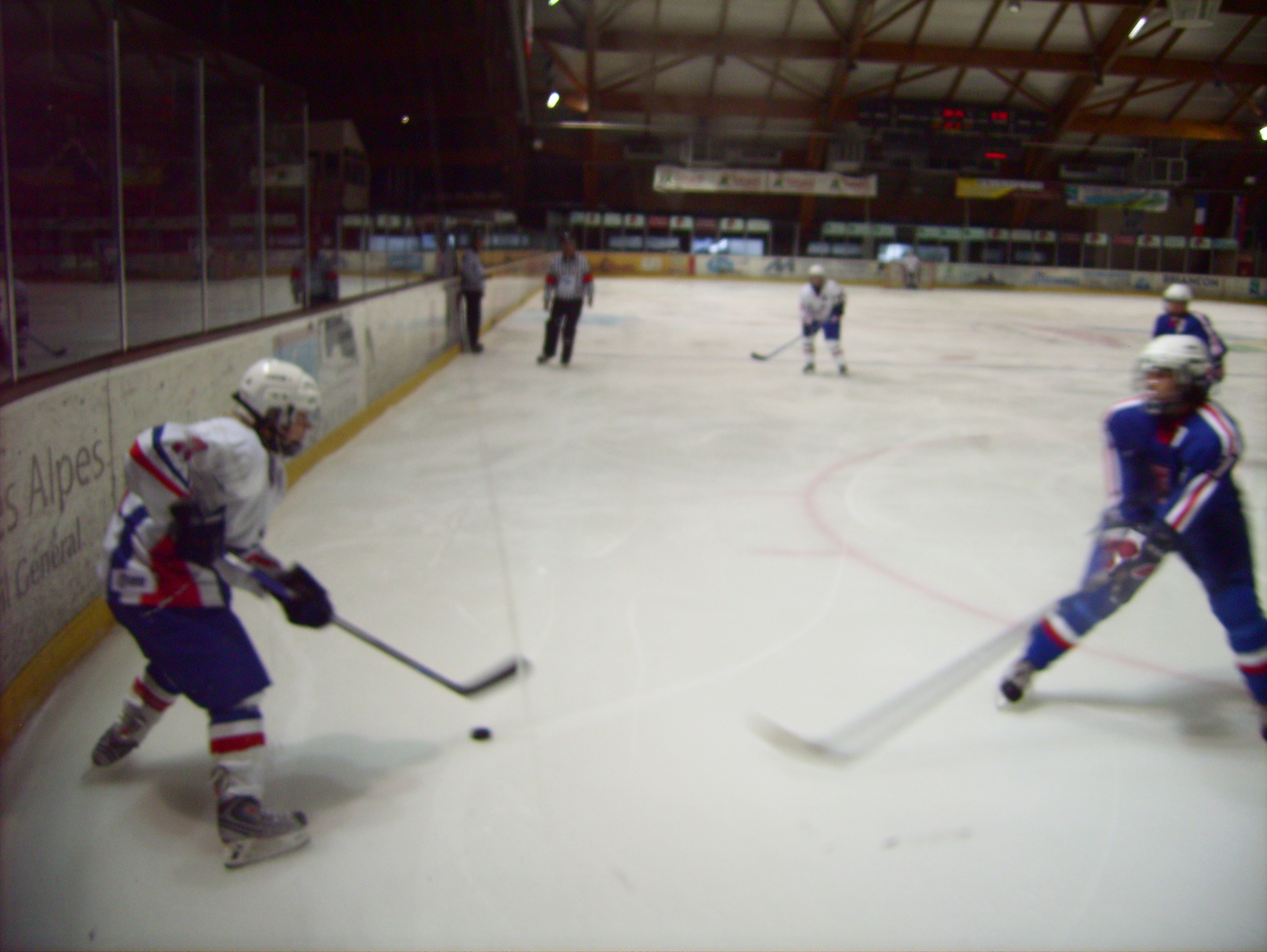 Women Ice hockey game. Friendly, France-Slovakia.